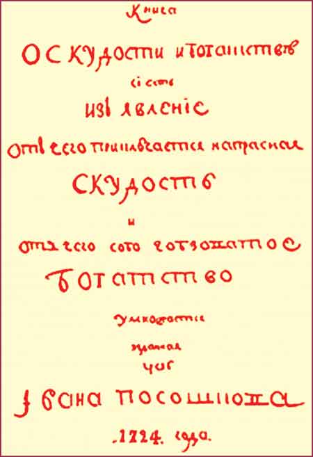 The title page of "The book about scantiness and wealth" by I. T. Pososhkov